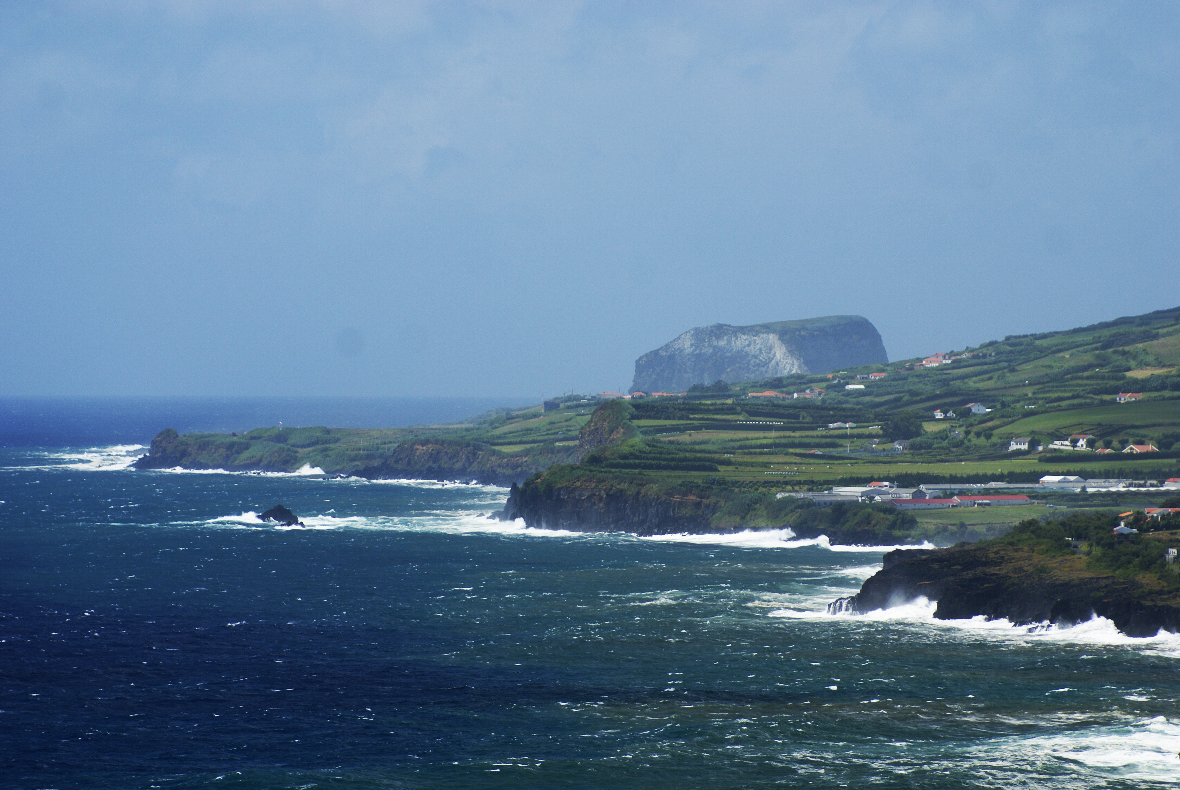 Costa da ilha do Faial com o Morro de Castelo Branco ao fundo vista do Monte da Guia, Concelho da Horta, ilha do Faial, Açores, Portugal